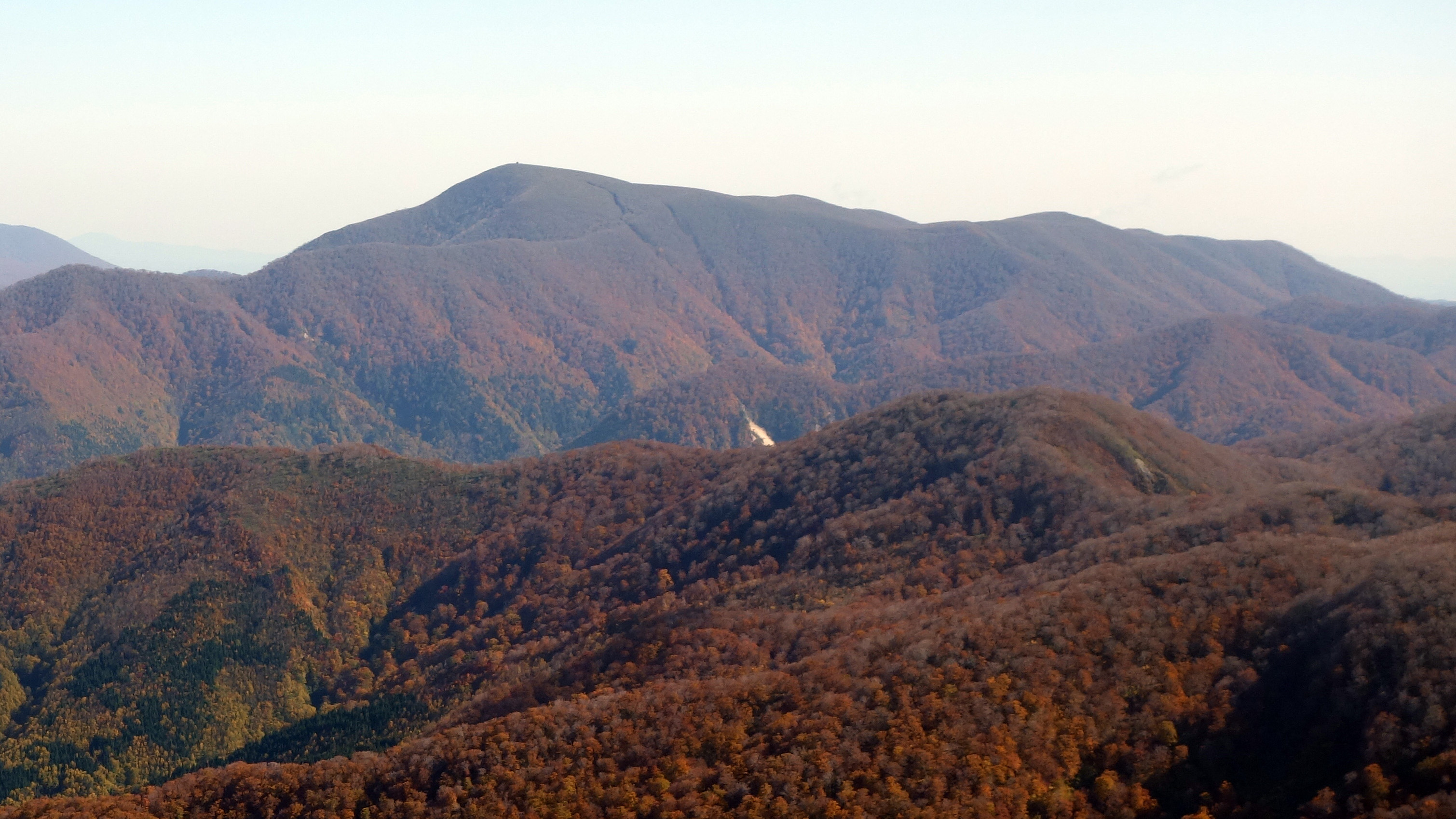 Mount Torake seen from the west. Taken from Mount Kamuro.